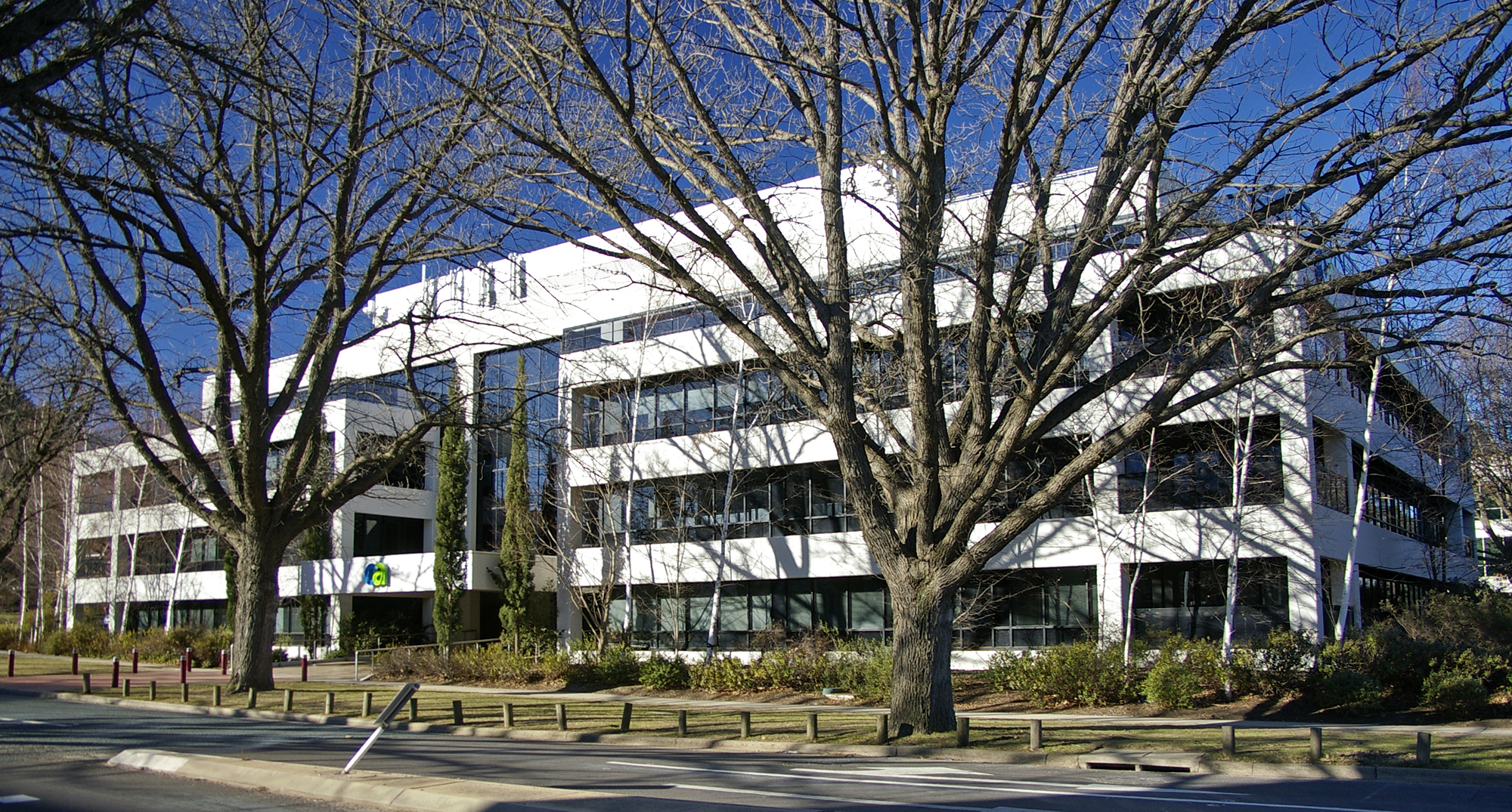 CA (formerly known as Computer Associates) House in Canberra suburb of Barton, Australian Capital Territory